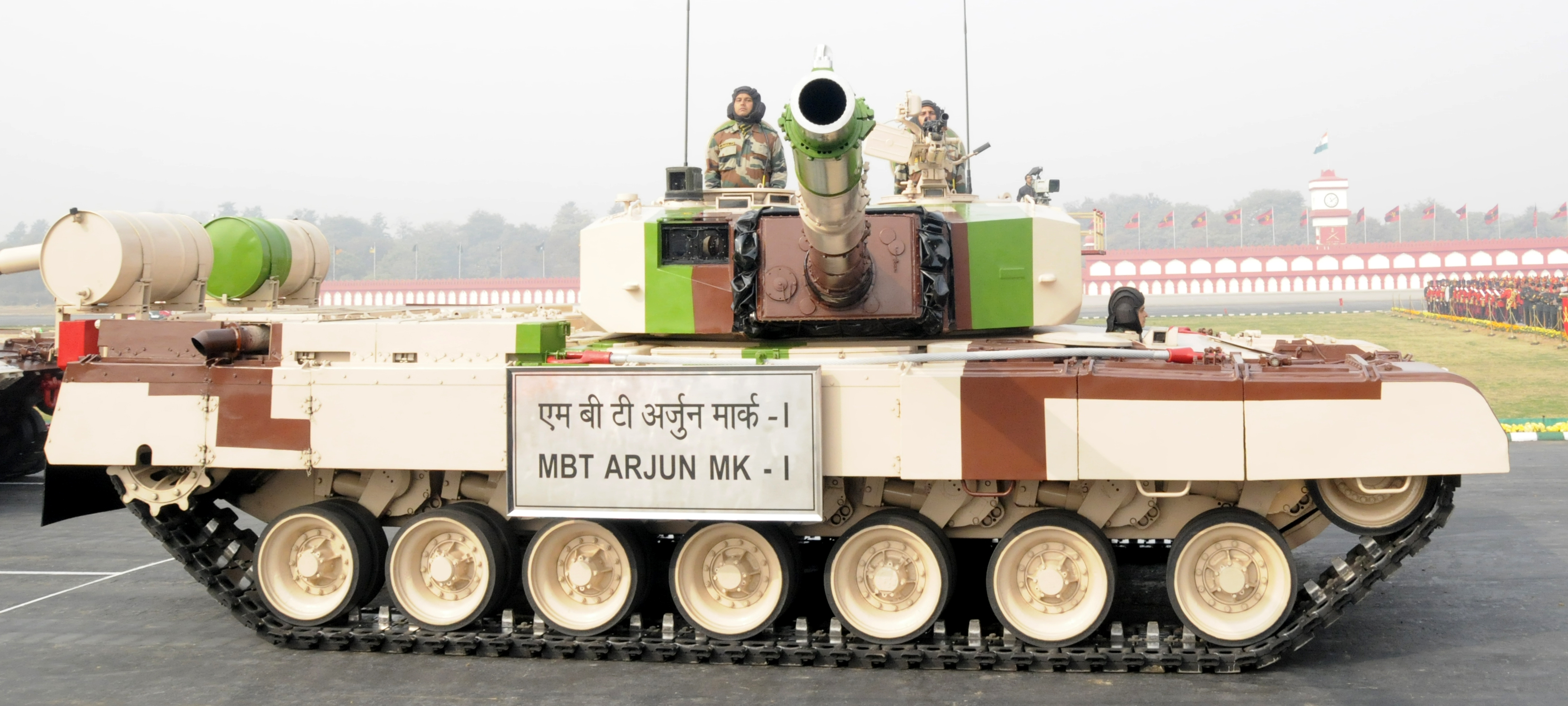 Indian Army Arjun Tank